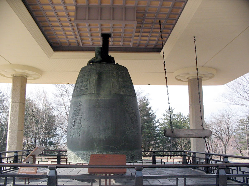 성덕대왕신종. 대한민국 국보 29호로 국립경주박물관에 있다. Bell of King Seongdeok exhibited in Gyeongju National Museum